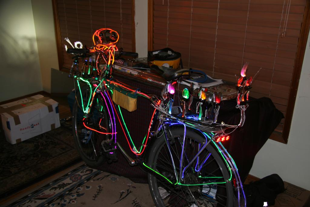 Home brew bicycle lighting system consisting of high power LEDs for headlight and taillight as well as decorative lighting. The stainless steel assemblies with the spoons are used for a decorative effect on the LED lighting